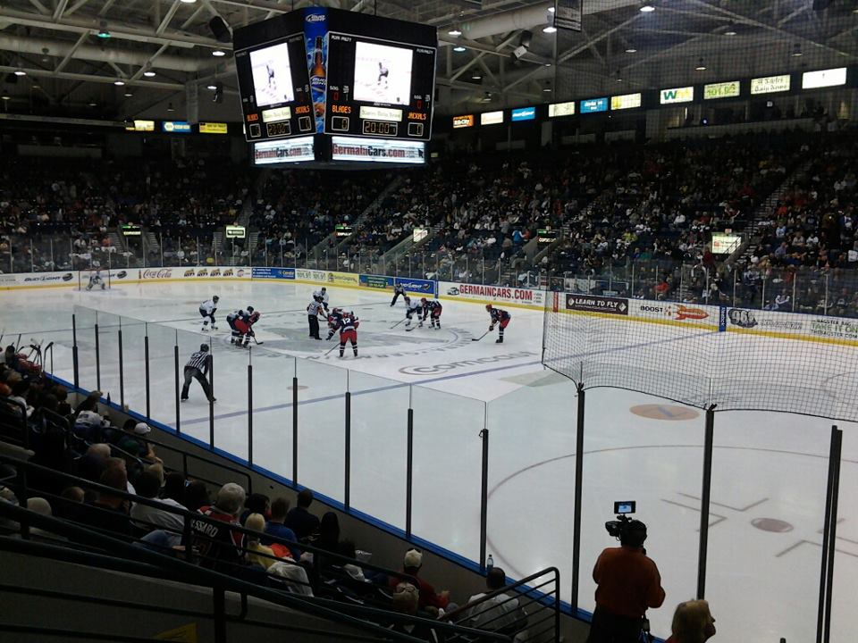 The Florida Everblades square off against the Elmira Jackals in an ECHL hockey game on December 10, 2011